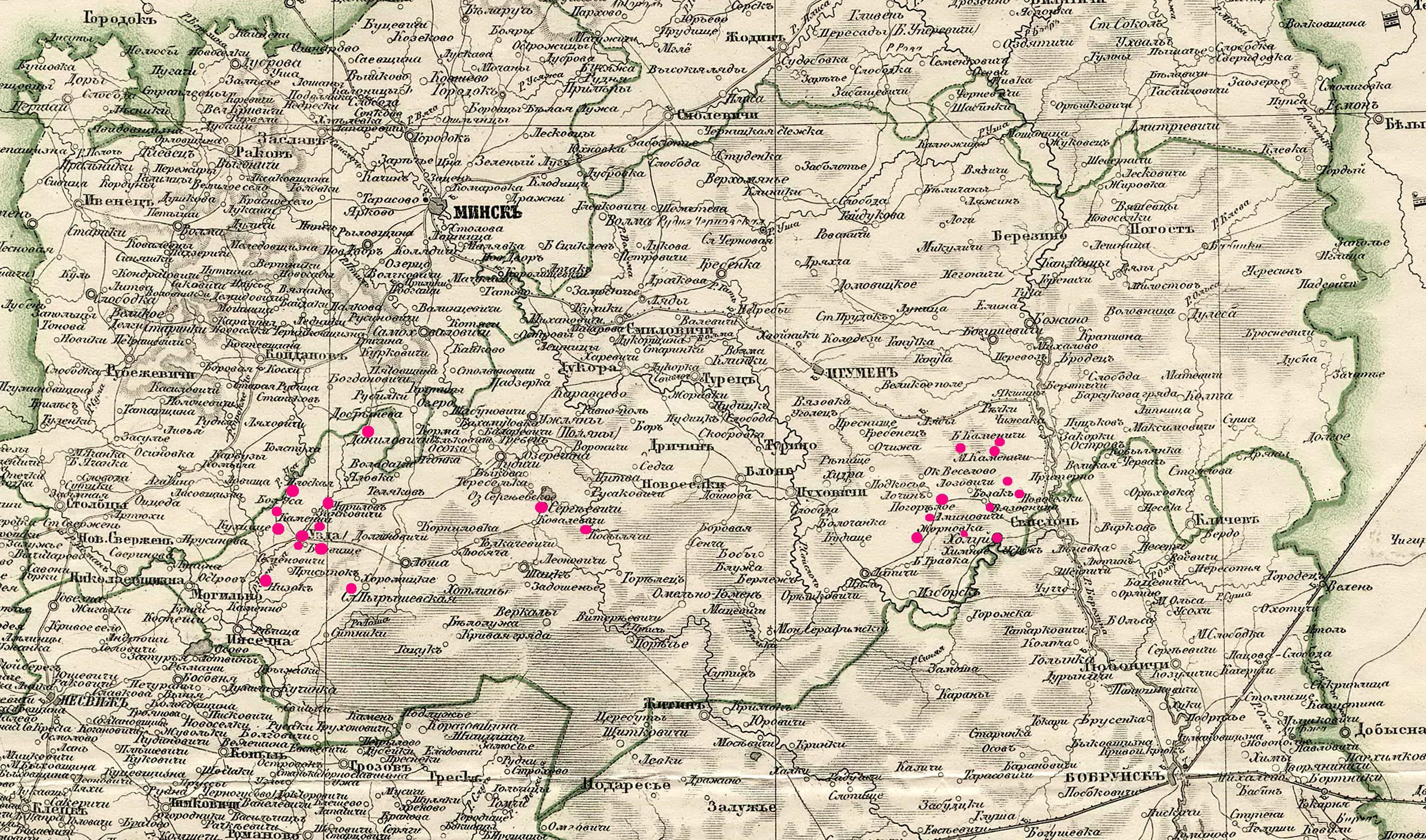 count Jan Zavisha (1822-1887)'s land possession in Igumen district of Minsk region (Russian empire) in 1860 AD